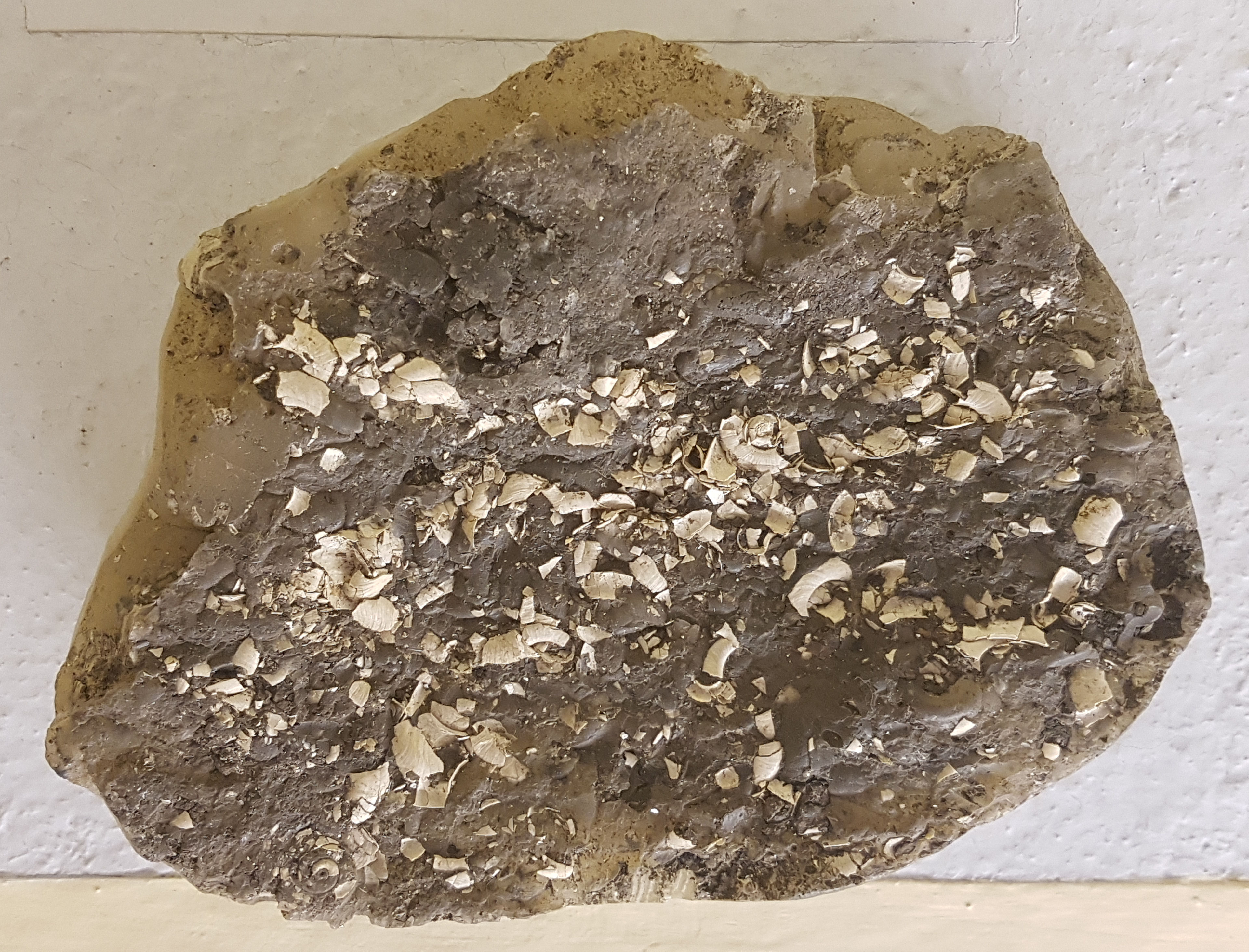 gastropod coquina from the Geiseltal, Germany, Middle Eocene; took the picture in the Geiseltalmuseum, Halle (Saxony-Anhalt)